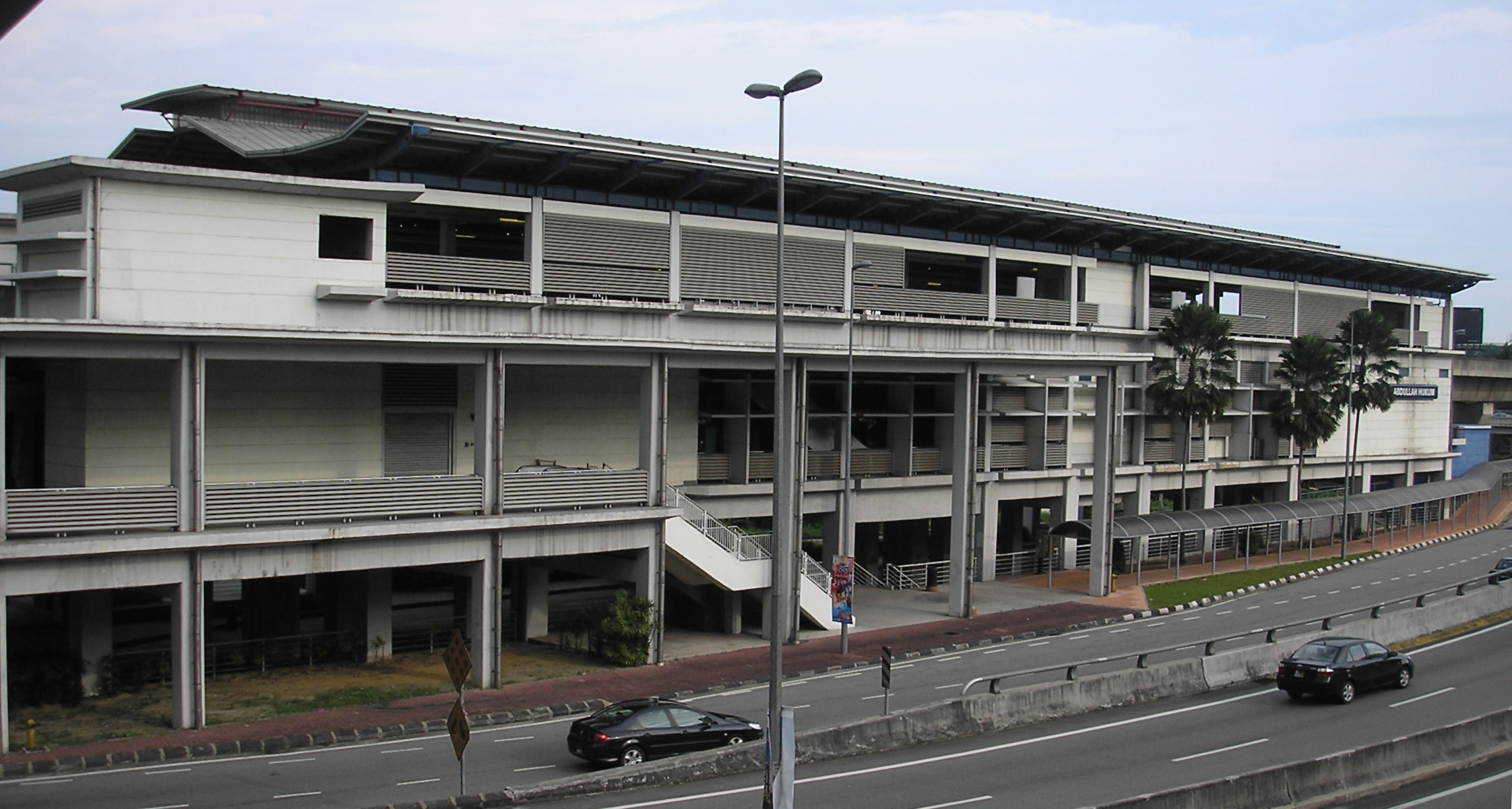 An exterior view (towards the southeast) of the Abdullah Hukum station's side (Kelana Jaya Line), close to Kampung Haji Abdullah Hukum, Kuala Lumpur, Malaysia.